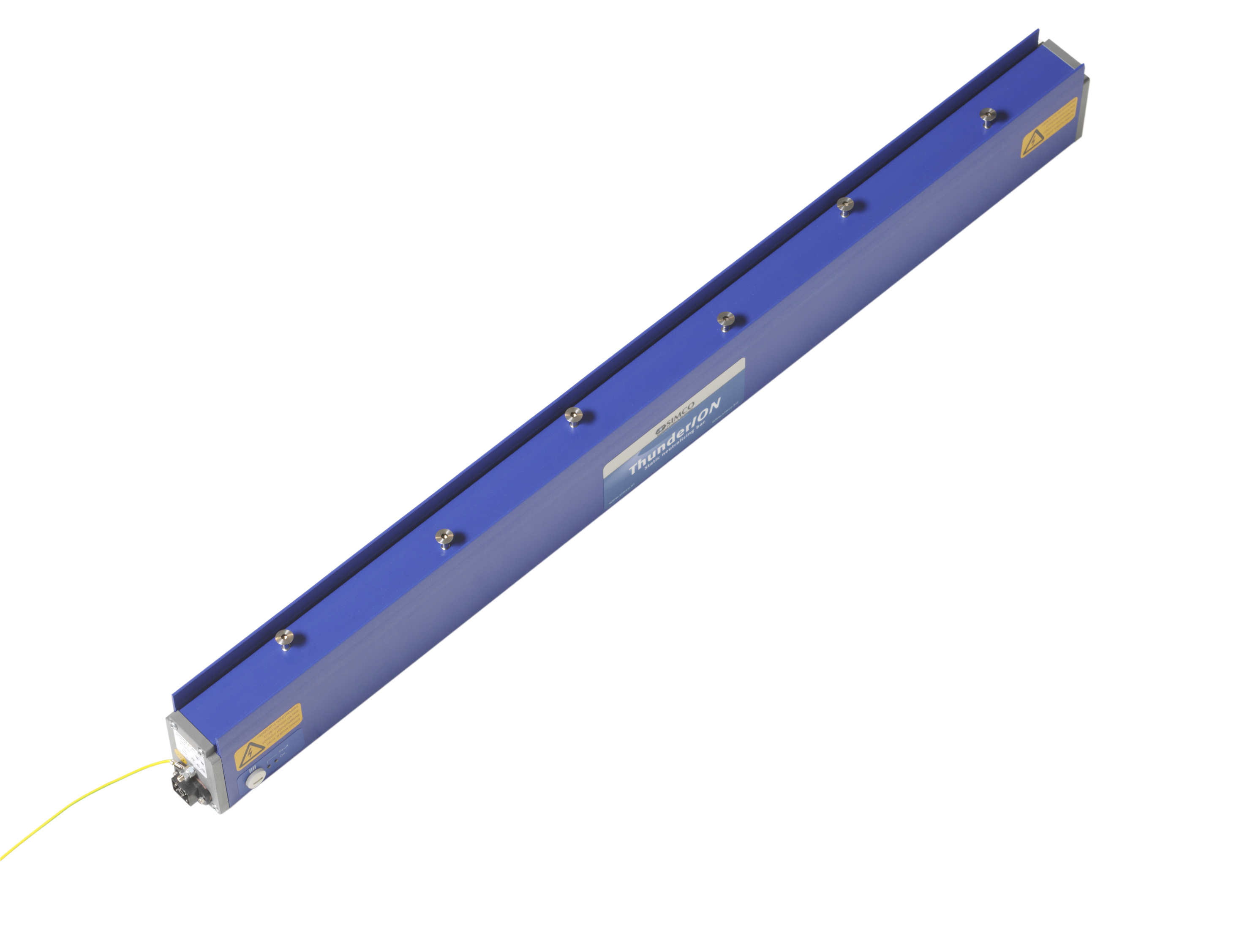 Long range Ionisation bar for static dischcarge up to 1 meter without air assistance